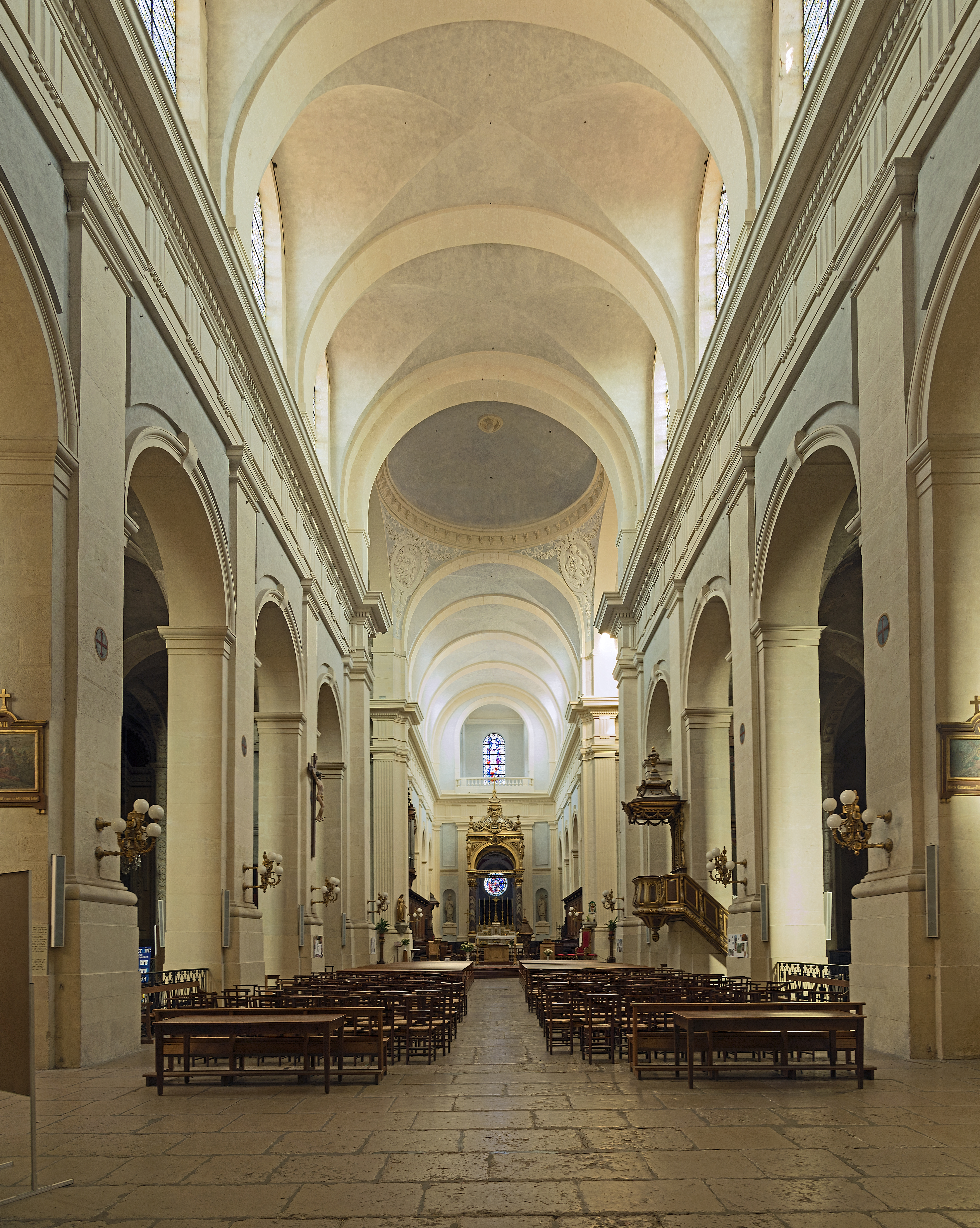 Montauban Cathedral, Tarn et Garonne, France. The nave.